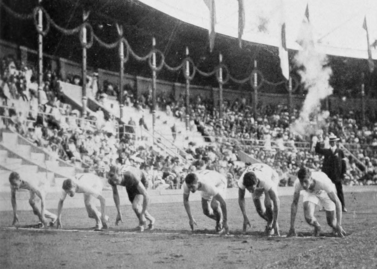 One of the semi-finals of the men's 400 metre competition at the 1912 Summer Olympics.